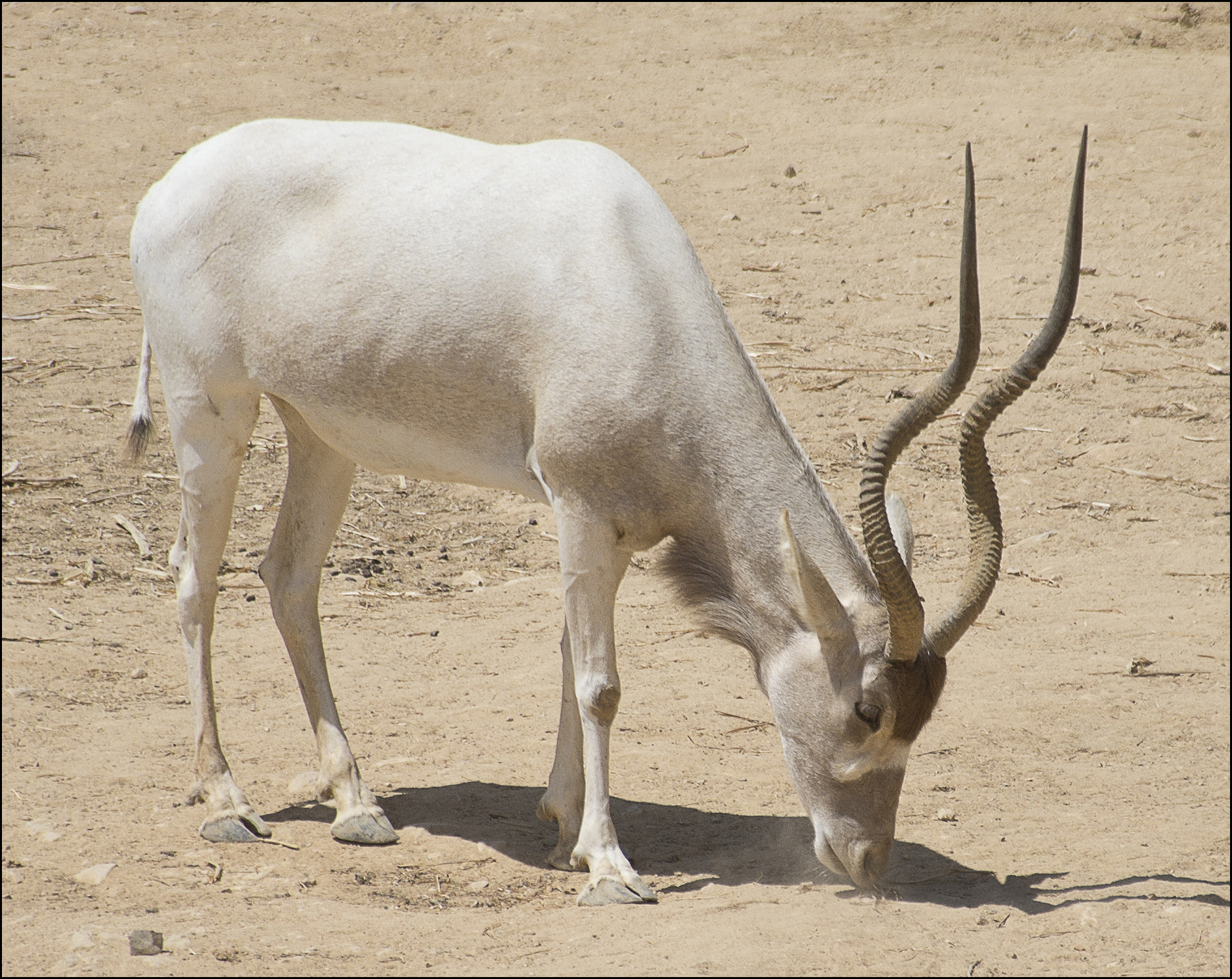 Addax nasomaculatus, Jerusalem Biblical Zoo, Jerusalem, Israel